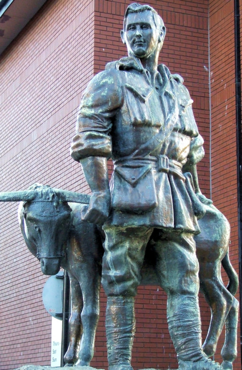 A statue of John Simpson Kirkpatrick and his donkey which stands in Ocean Road, South Shields.